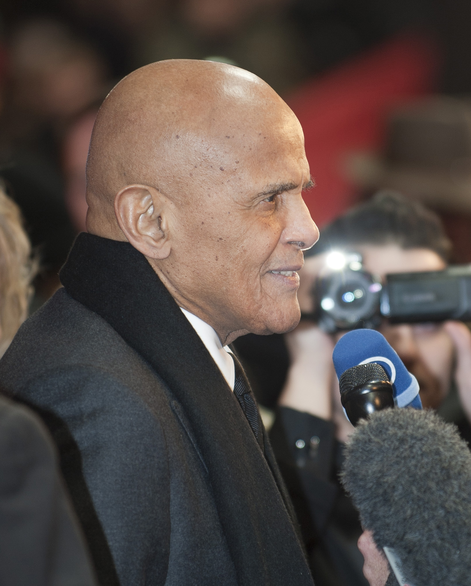 Harry Belafonte at the premiere of the documentary movie "Sing Your Song" about himself at the FriedrichstadtPalast, Berlin, Berlinale 2011